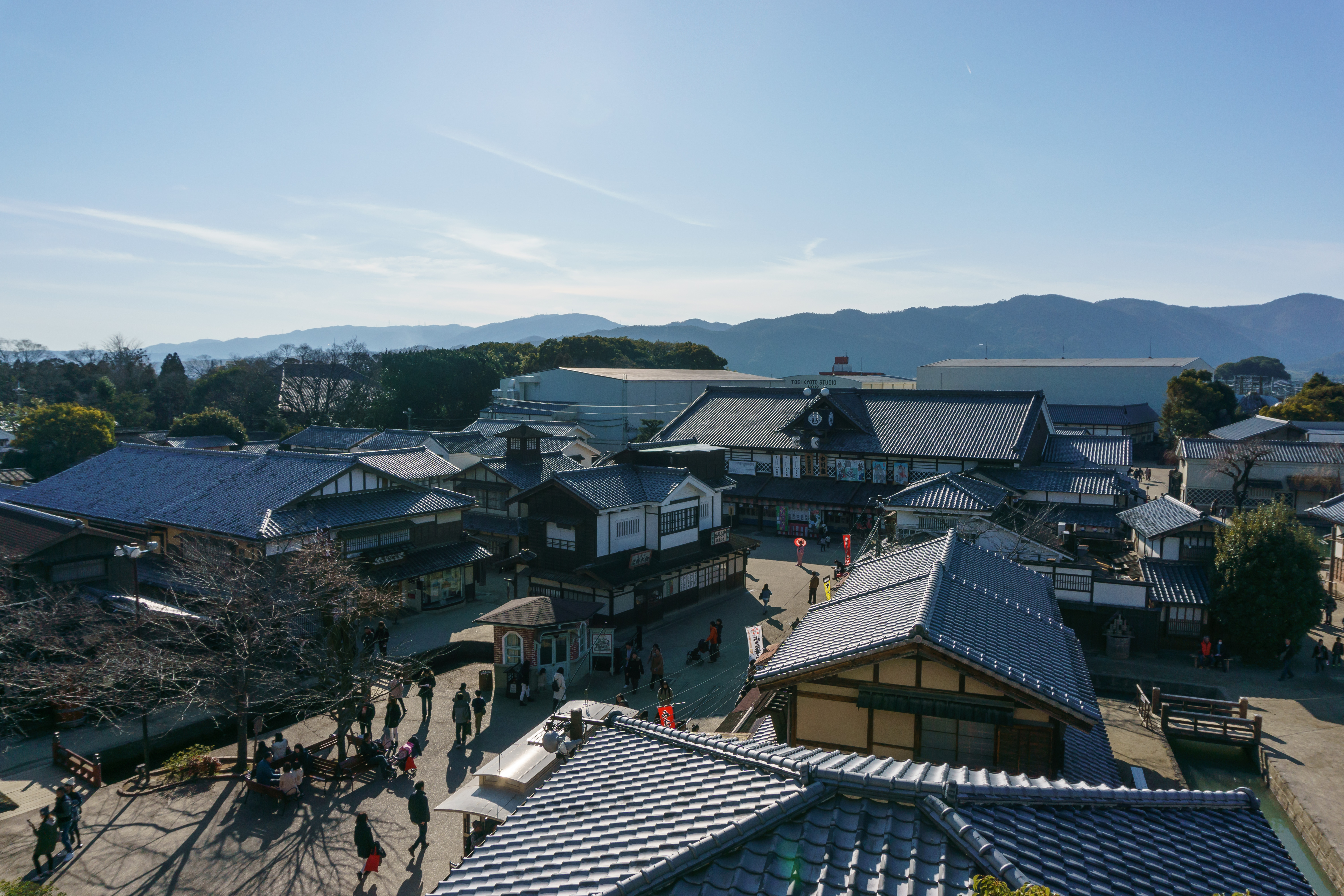 A view of a large section of a the Toei Kyoto Studio Park from a stairway close to its entrance.